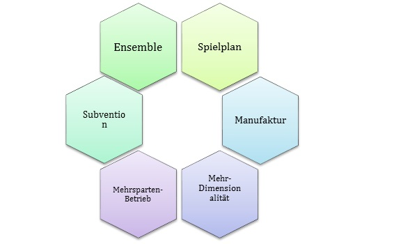 Chraracteristics of German Theatre